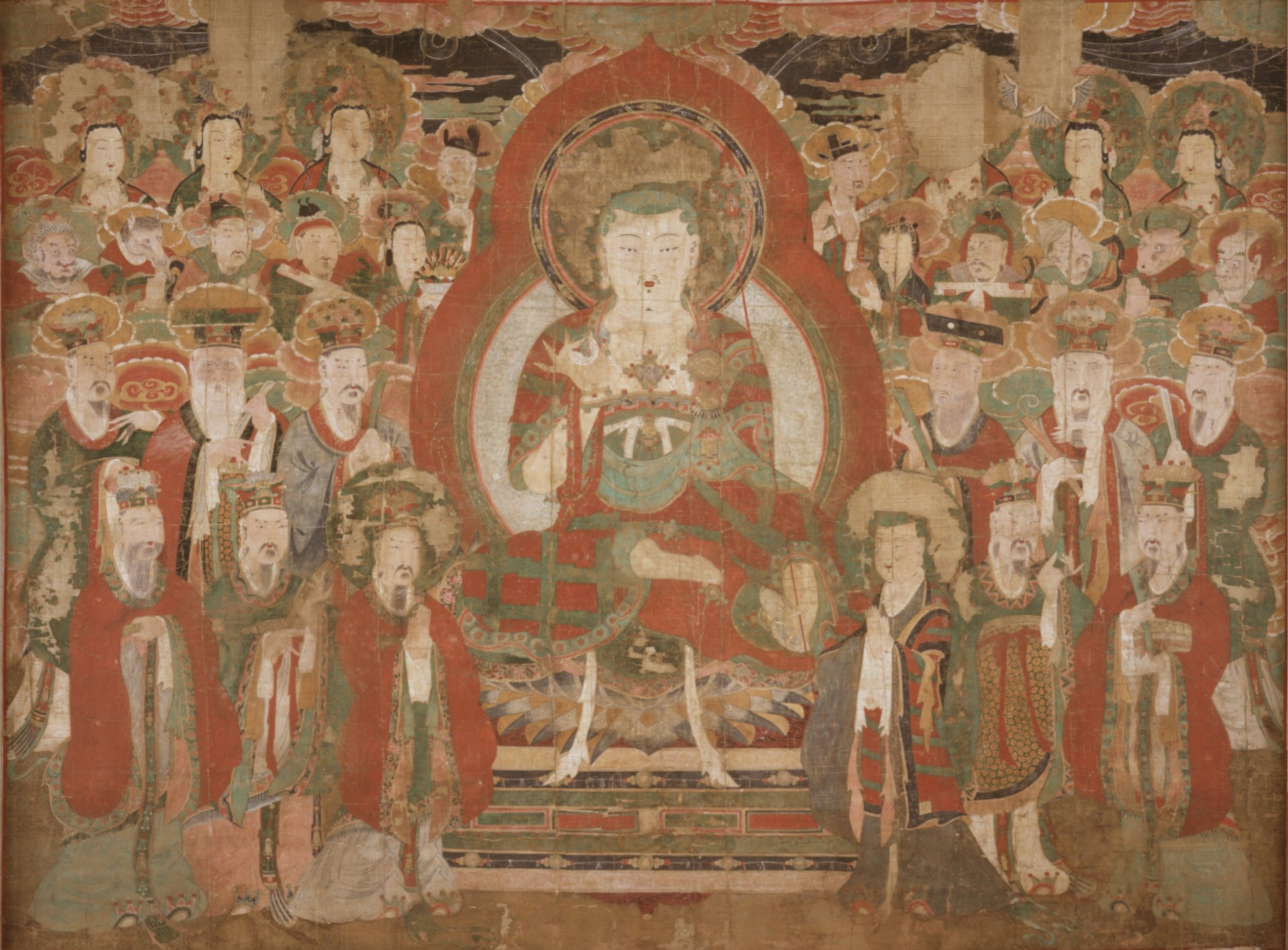 Chijang Posal (Korean version of Ksitigarbha) as Supreme Lord of the Underworld. Ink and color on silk, 86 x 118 in. (218.4 x 299.7 cm)